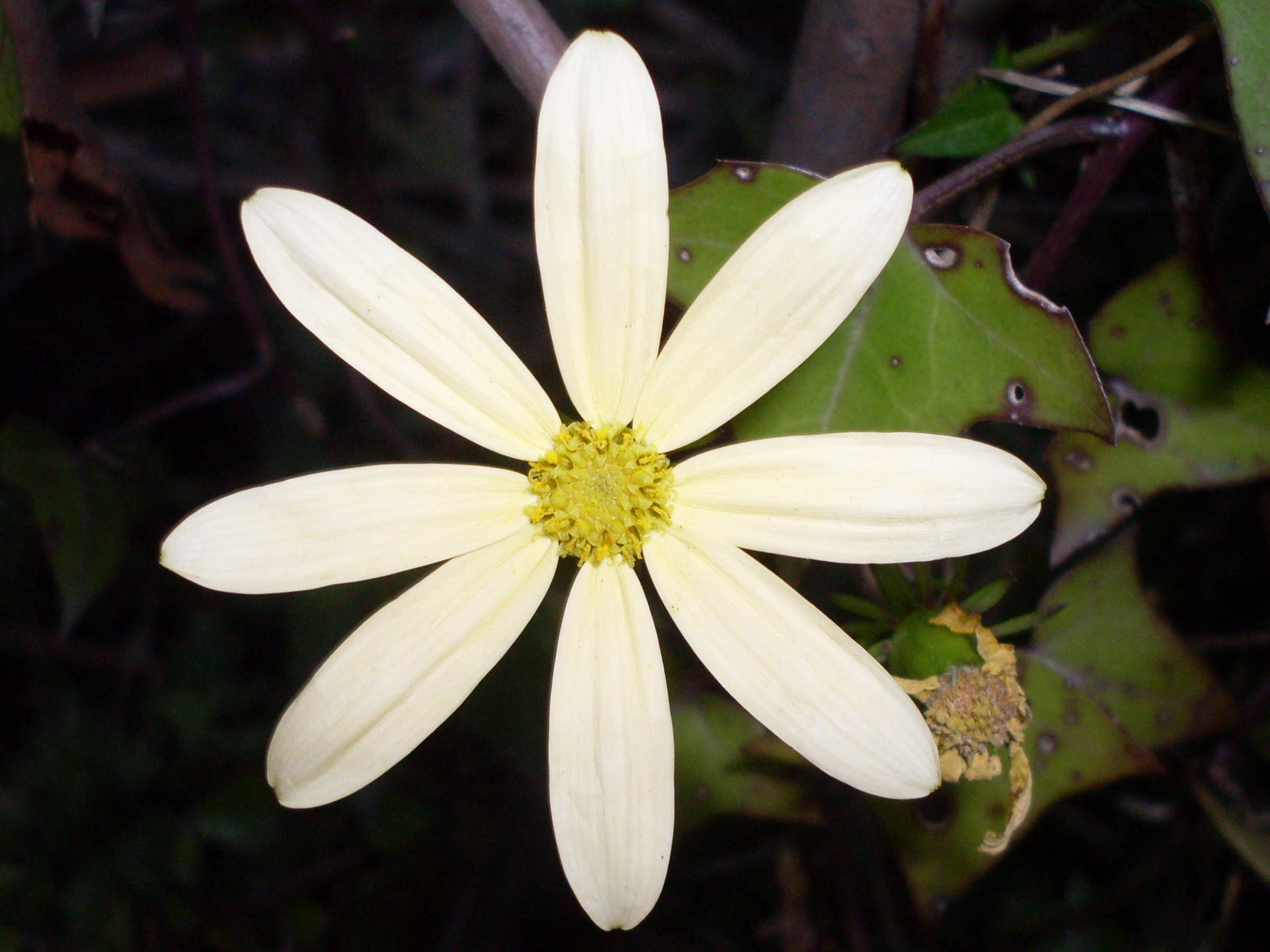 Natal Ivy or Wax Vine, probably Senecio macroglossus. A climber with pale yellow or cream solitary flowers and ivy-like leaves. Como NSW Australia, May 2009.